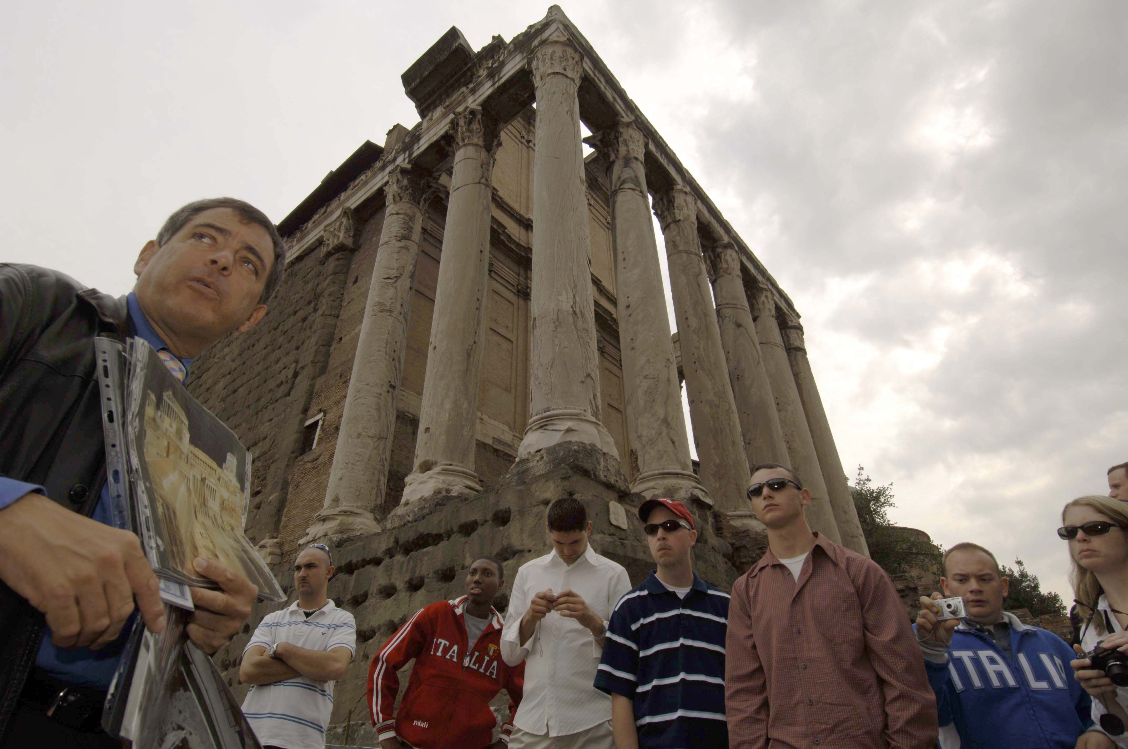 Rome, Italy (Oct. 19, 2006) – Fransico Julius, a local tour guide in Rome, shows Sailors from the Nimitz-class aircraft carrier USS Dwight D. Eisenhower (CVN 69) photos of what the historic city looked like thousands of years ago. Dwight D. Eisenhower, flagship for Carrier Strike Group (CSG) 8, stopped in Naples, Italy for a scheduled four-day port visit. Eisenhower departed her homeport of Norfolk, Va., on Oct. 3, for a regularly scheduled deployed in support of Maritime Security Operations (MSO). Embarked aboard IKE are aircraft assigned to Carrier Air Wing (CVW) 7. U.S. Navy photo by Mass Communication Specialist 3rd Class Matthew D. Leistikow (RELEASED)